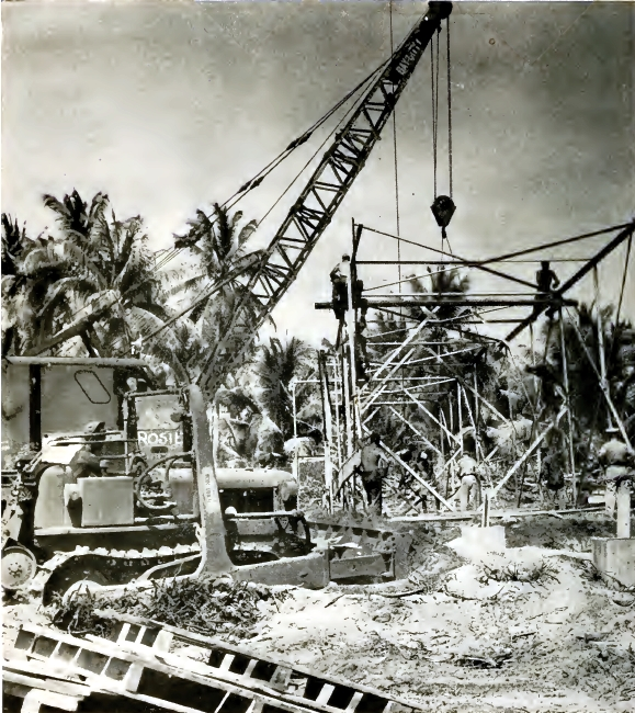 Instrument grandstands go up. Towers were assembled on the ground and hoisted into place.